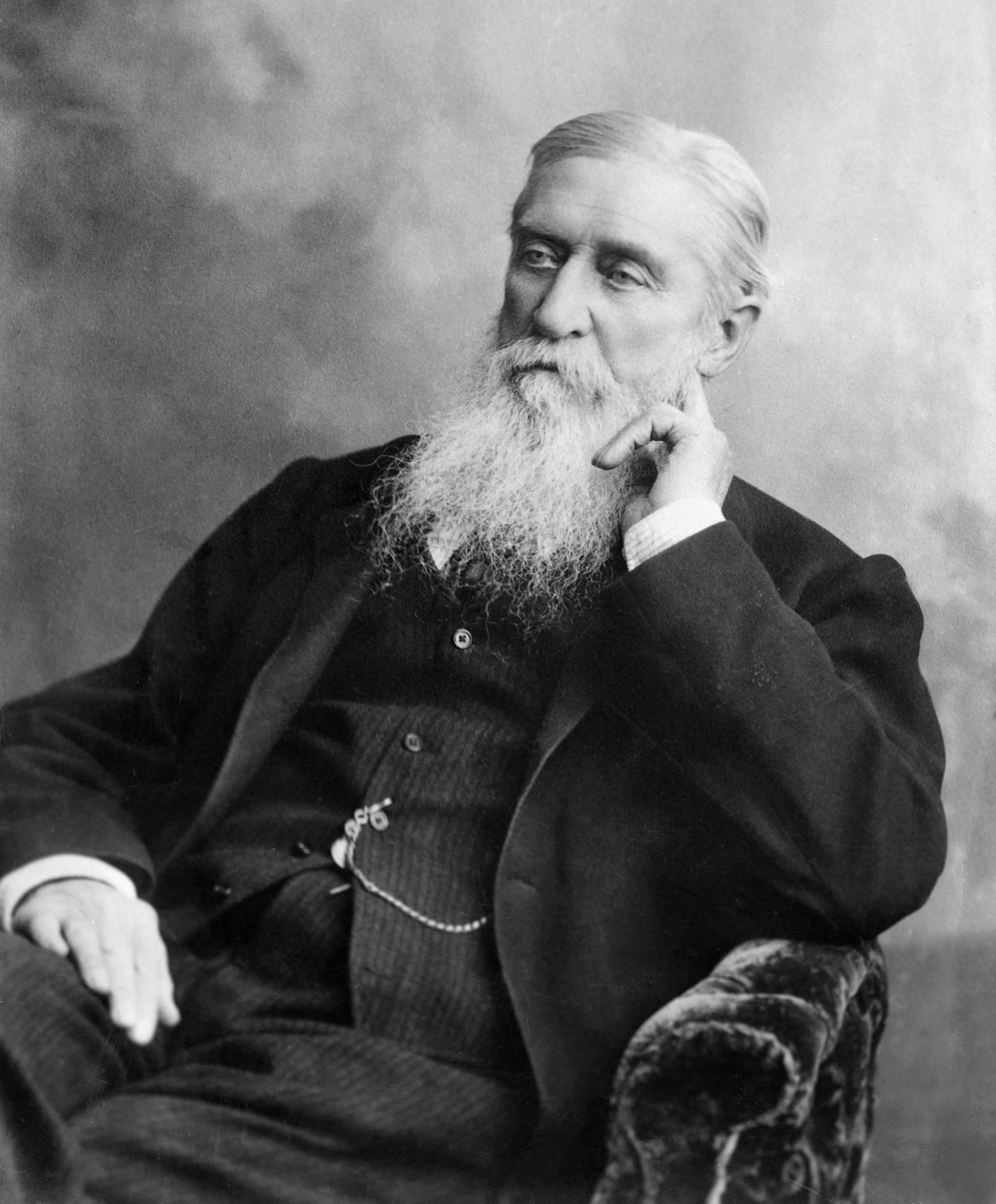 Portrait of James Edward Fitzgerald as an elderly man.